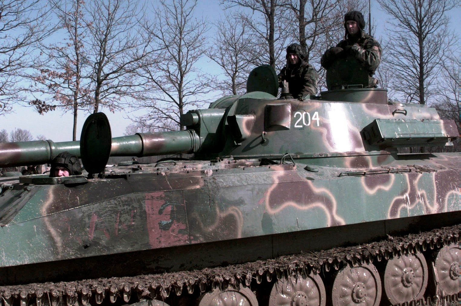 Croatian Defense Council (HVO) soldiers stand out the top of a Russian 122 mm 2S1 SPH during the Operation Joint Endeavor. This one was originally owned by the Serbs and later captured by the Croatians. The 4th Guards Artillery Demonstration took place in Dusine, Bosnia-Herzegovina on February 26, 1996 for IFOR.